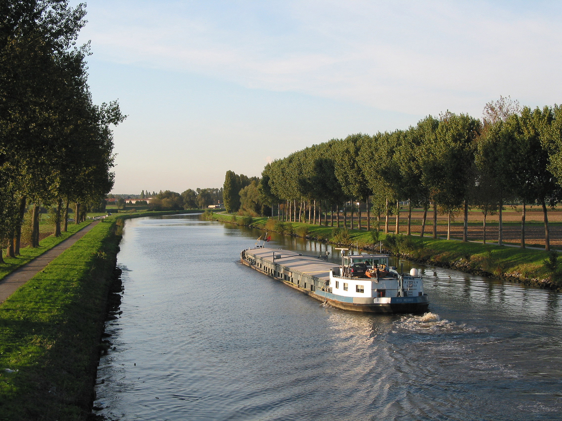 Pecq (Belgium), Escaut river downstream.